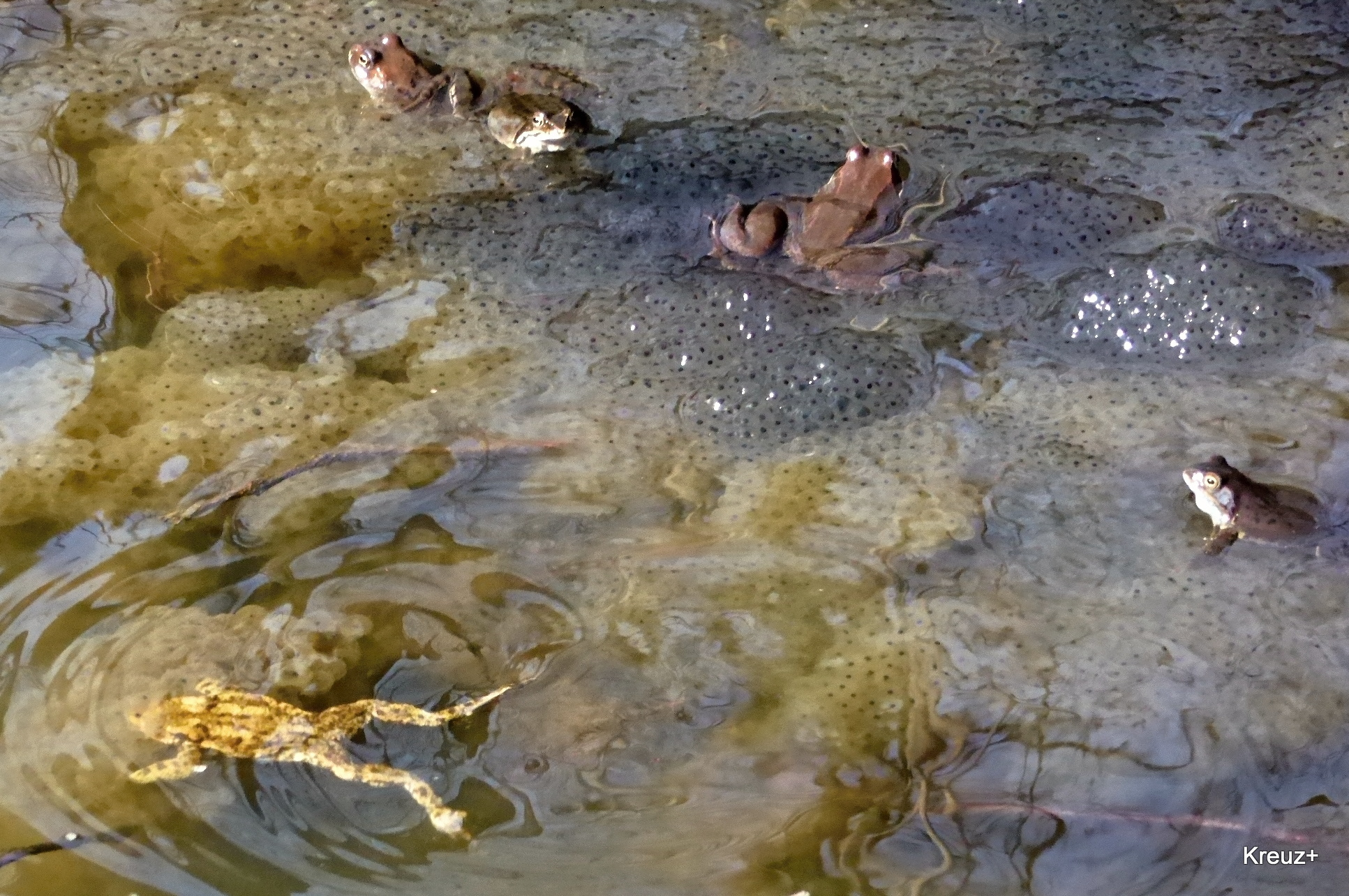 Natural Monument "Ratajské" ponds and locality of European importance in the Czech Republic. Frogs and frog eggs in the pond water. Photo location: Czechia, Pardubice Region, Hlinsko town.